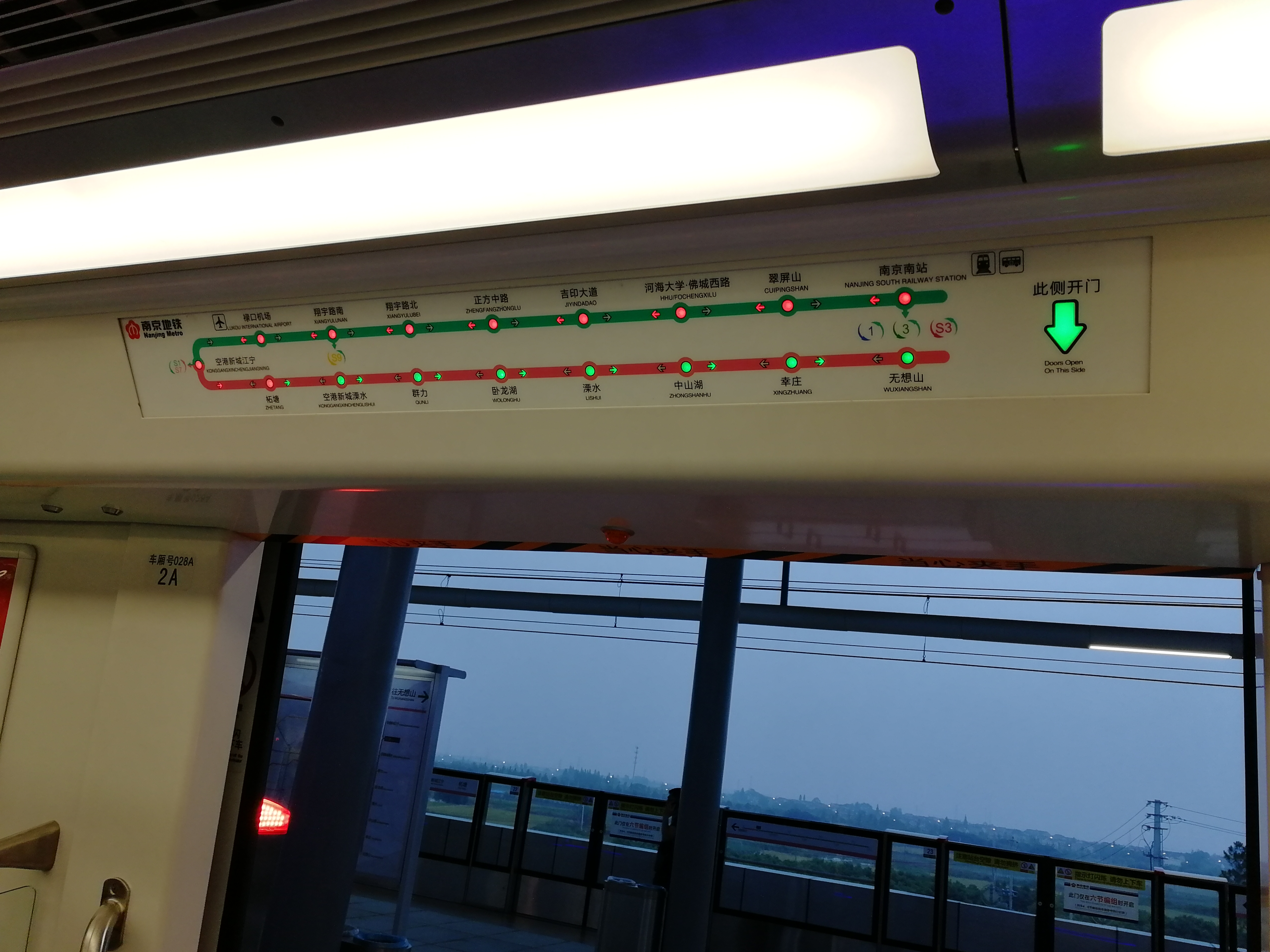 New station indicator of Nanjign Metro Line S1 (After Line S7 start service)